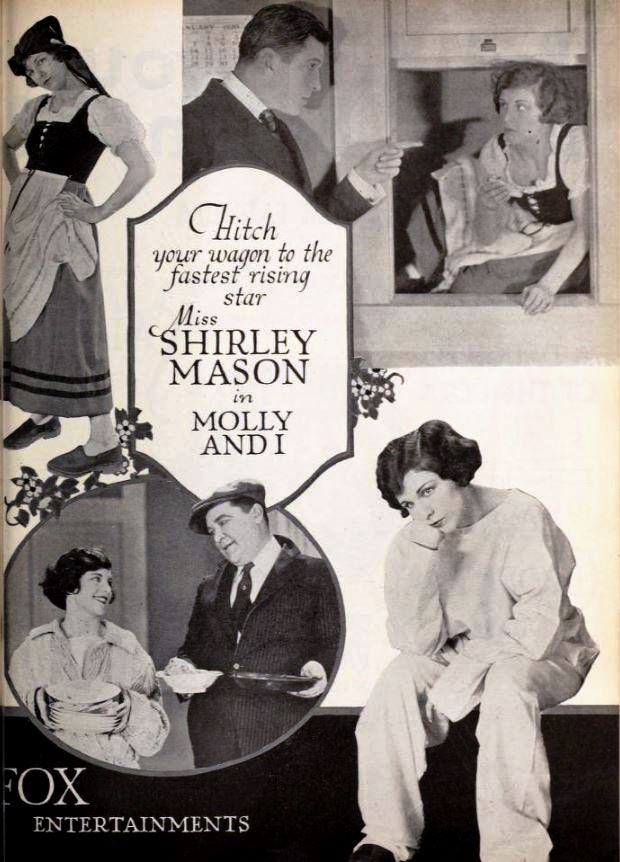 Advertisement for the American drama film Molly and I (1920) with Shirley Mason, Alan Roscoe, and Harry Dunkinson, on page 17 of the March 27, 1920 Exhibitors Herald.